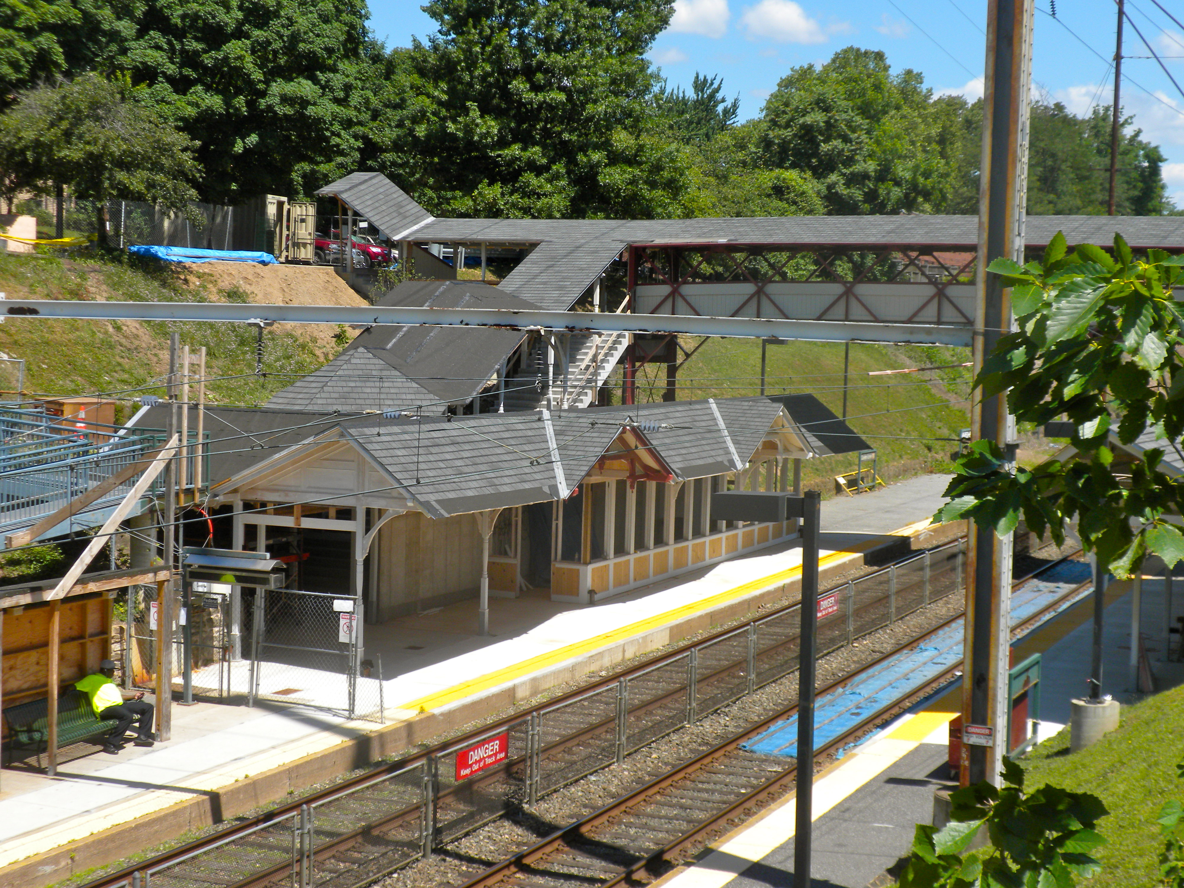 Queen Lane Station on SEPTA Regional Rail at 5319 Wissahickon Avenue facing West Queen Lane, Philadelphia, Pennsylvania. The station is in zone 1 on the SEPTA R8 Chestnut Hill West Line